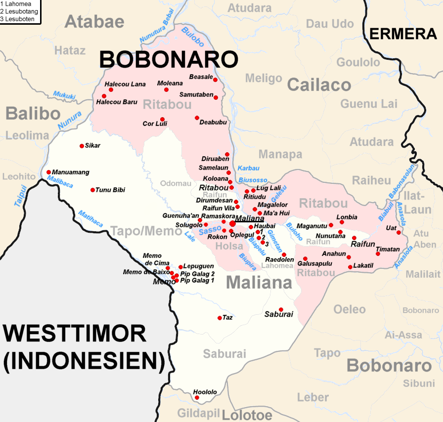 The subdistrict of Maliana, district Bobonaro, East Timor